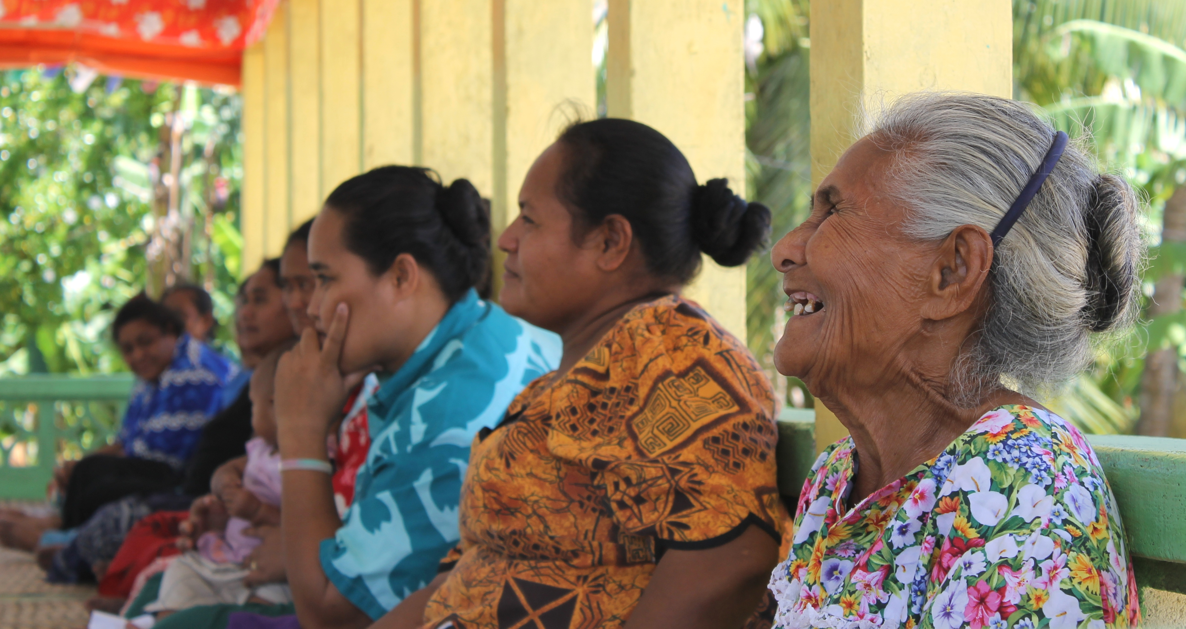 to request a high resolution original.